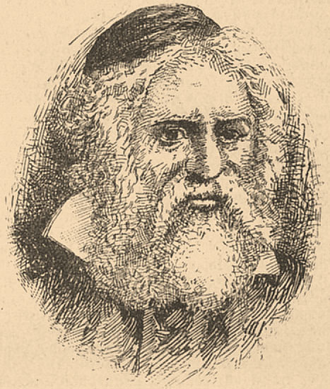 Illustration from Brockhaus and Efron Jewish Encyclopedia (1906—1913)